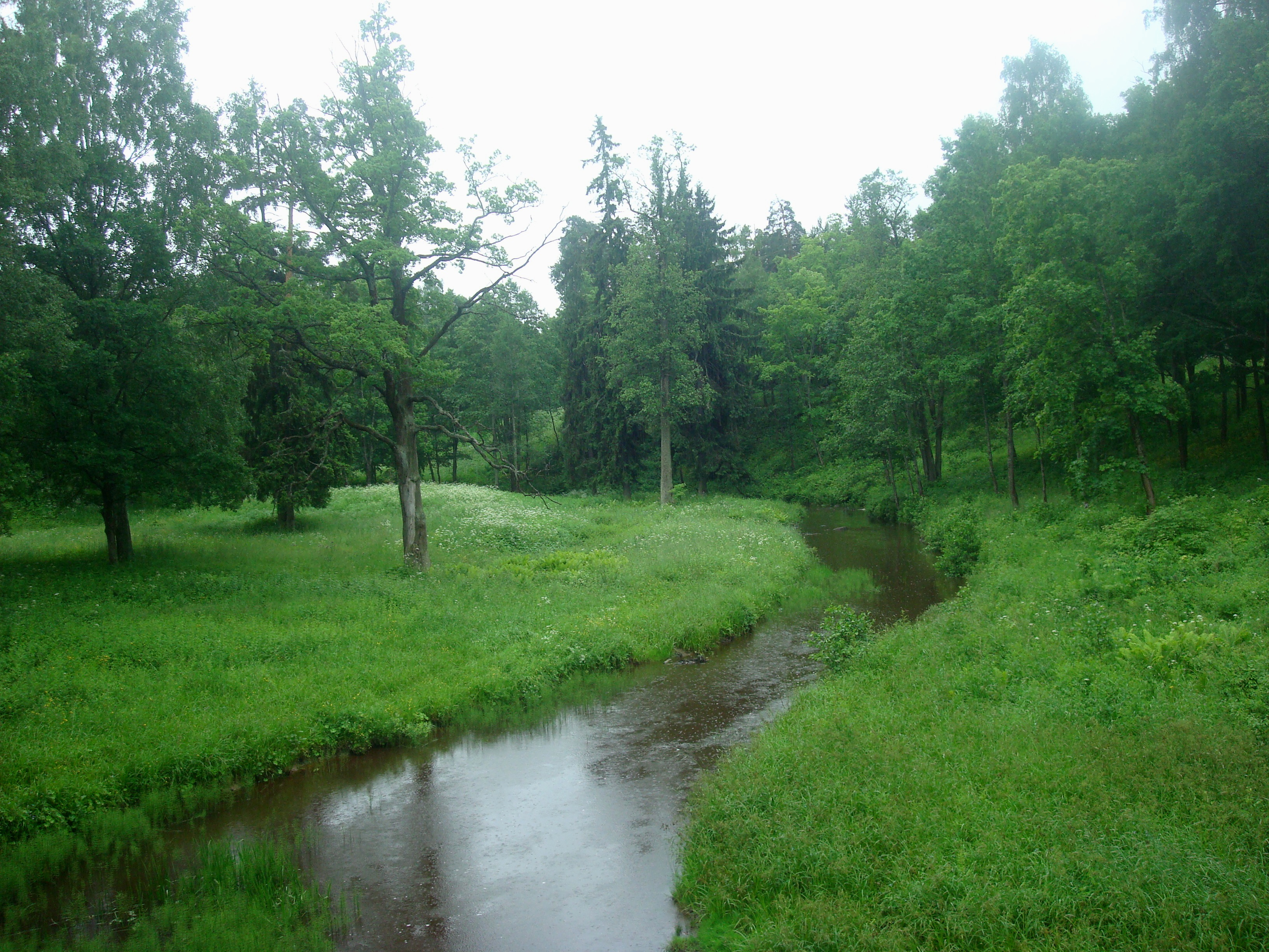 River Karosta in Oranienbaum, Russia